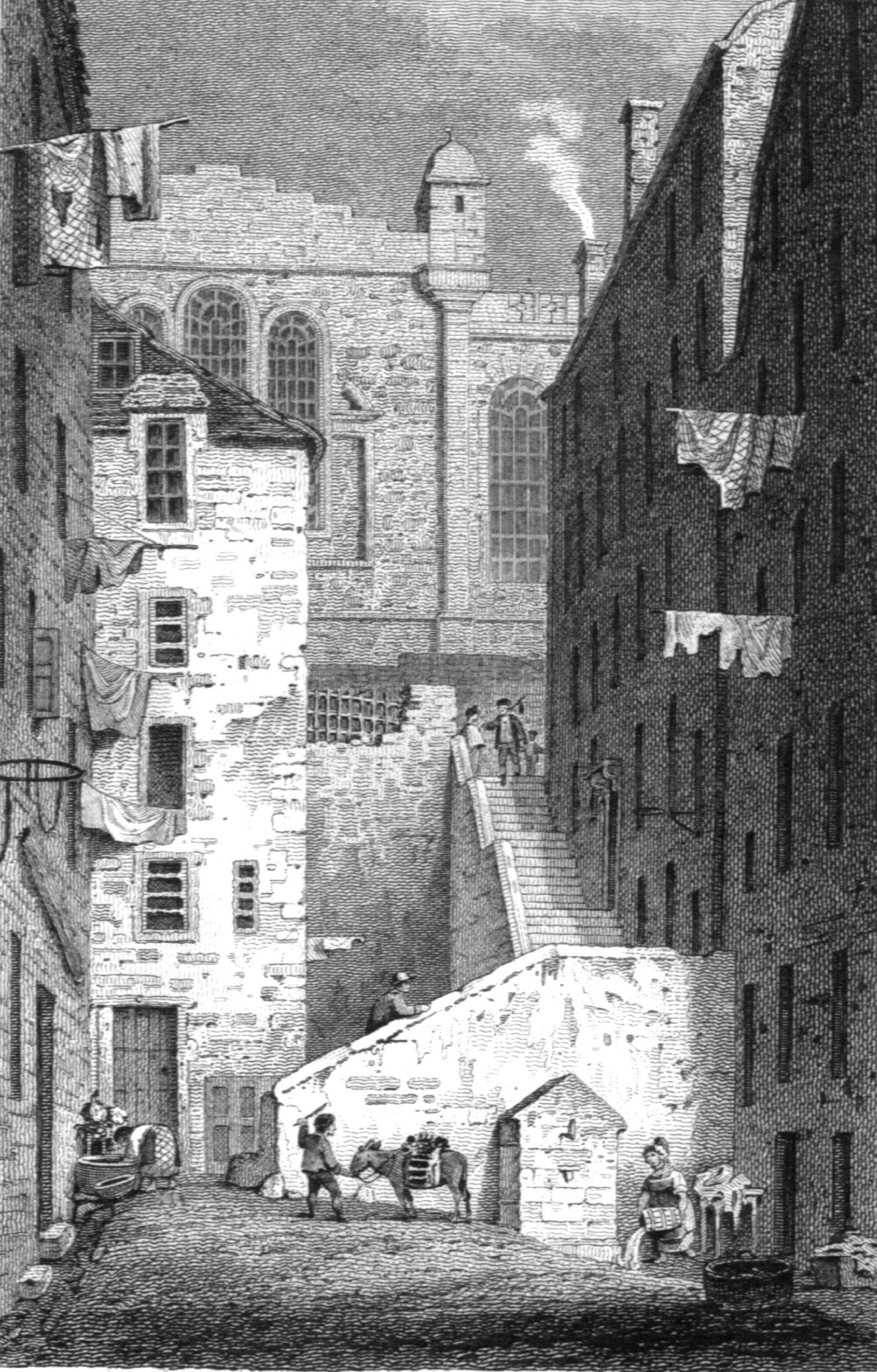 Parliament House from the Cowgate shortly before the demolition of the old Parliament Stairs, known colloquially as the Back Stairs.